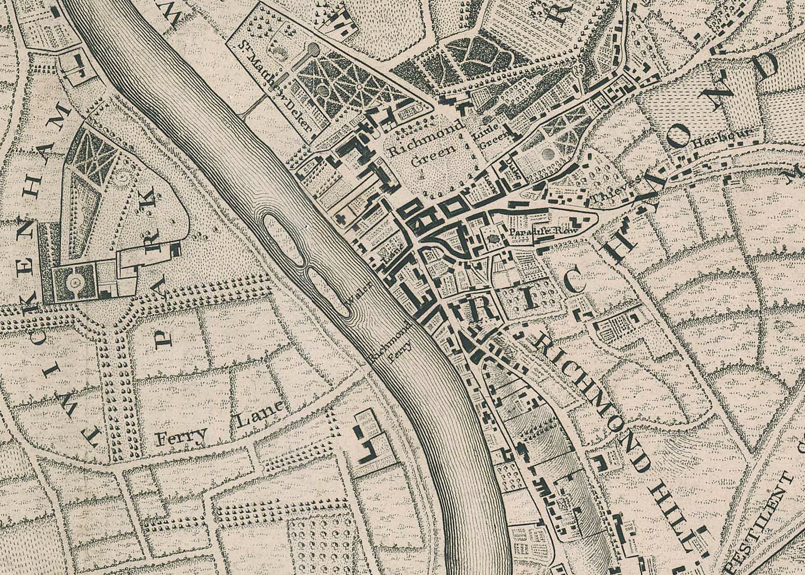 Site of the future Richmond Bridge, 1746